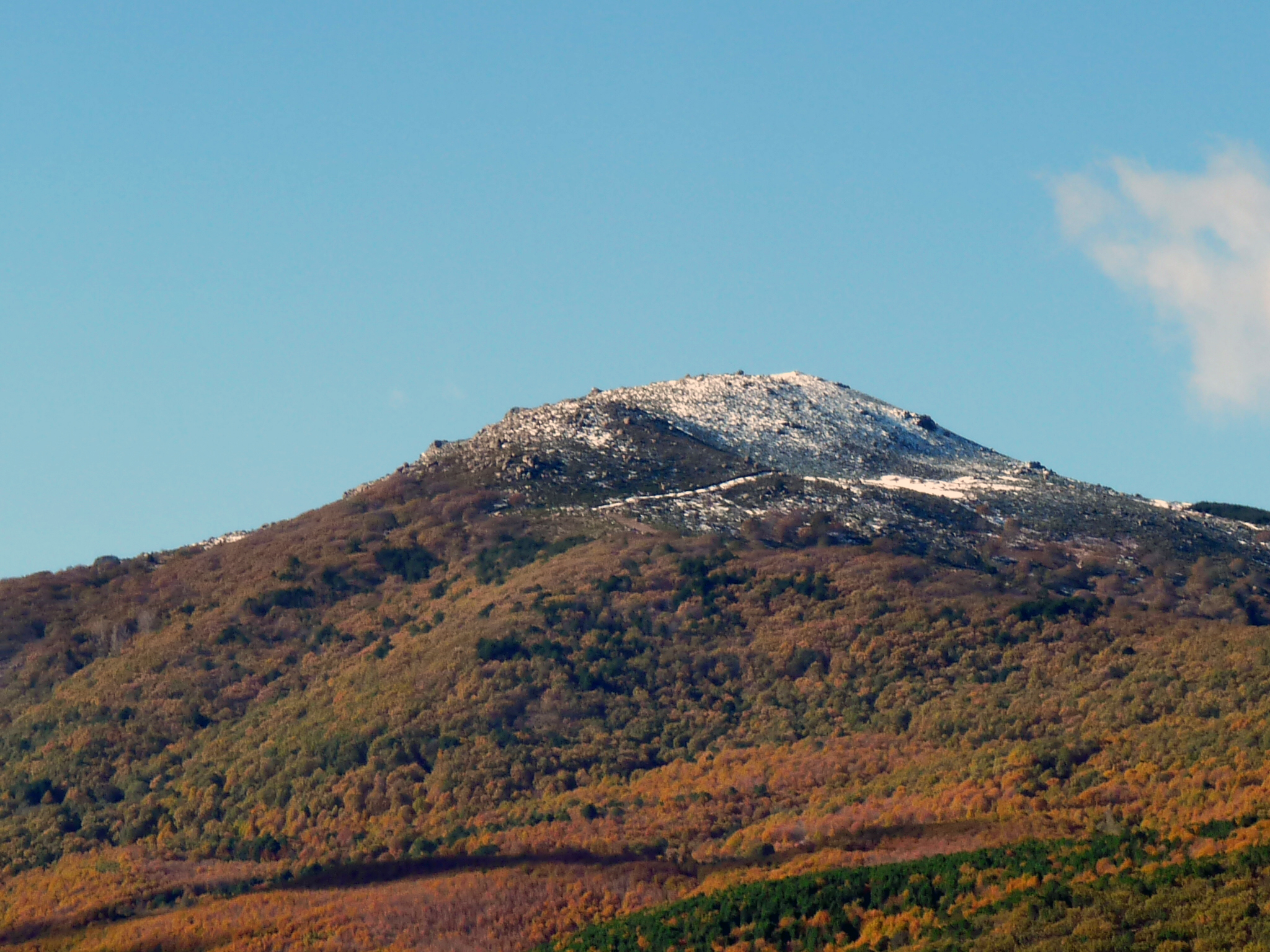 Alto del Mirlo, between province of Ávila (Castile and León)and Community of Madrid, , Spain.